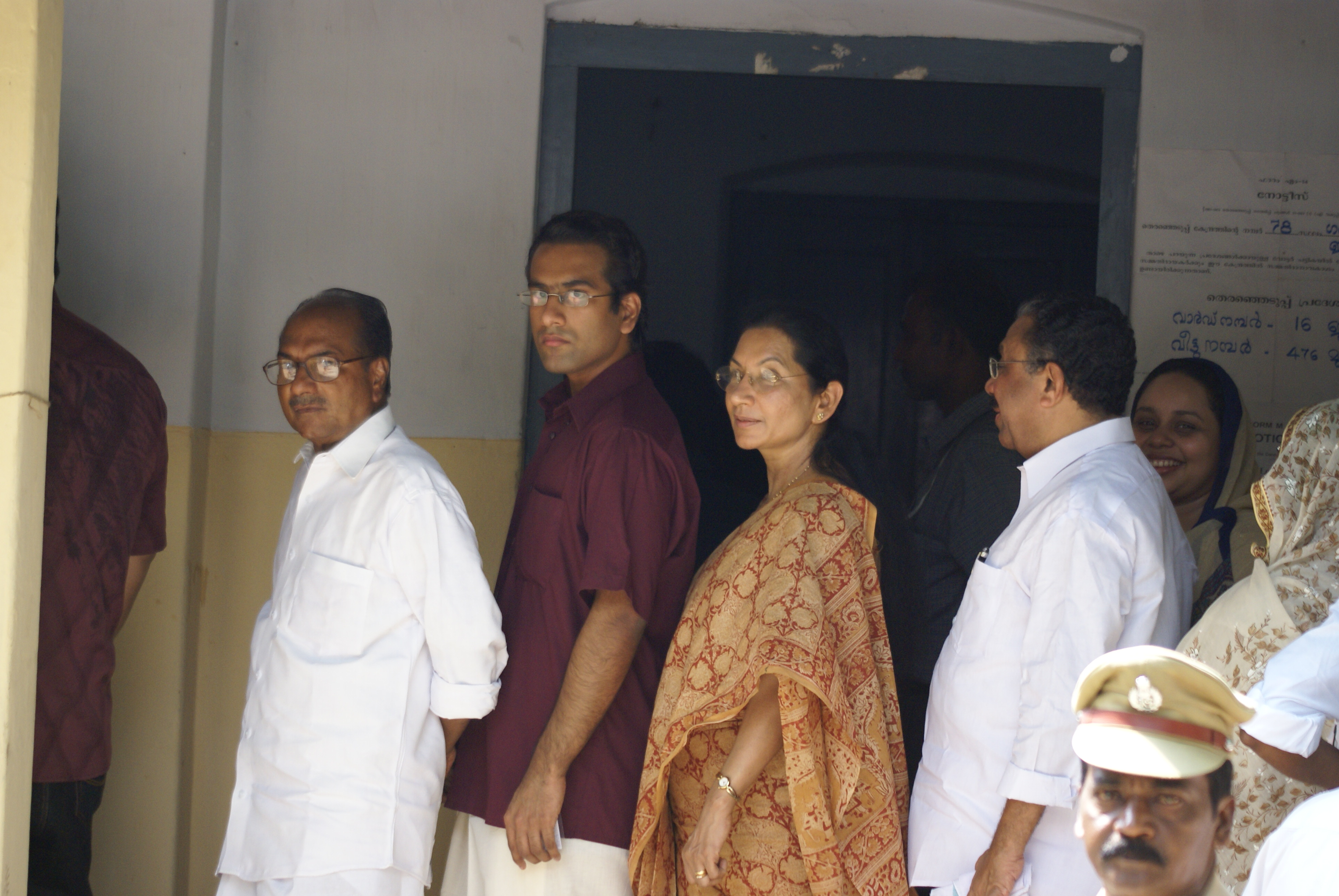 Defence Minister A.K. Antony (left) seen here with family queue up outside a polling station in Thiruvananthapuram, Kerala on April 2009 in the first phase of General Election of 2009.